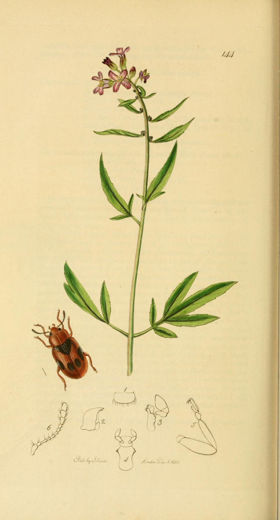 An illustration from British Entomology by John Curtis. Coleoptera: Cacidula scutellata or Coccidula scutellata (Spotted Cacidula).The plant is Cardamine bulbifera (Dentaria bulbifera, Bulbiferous Coral-wort)